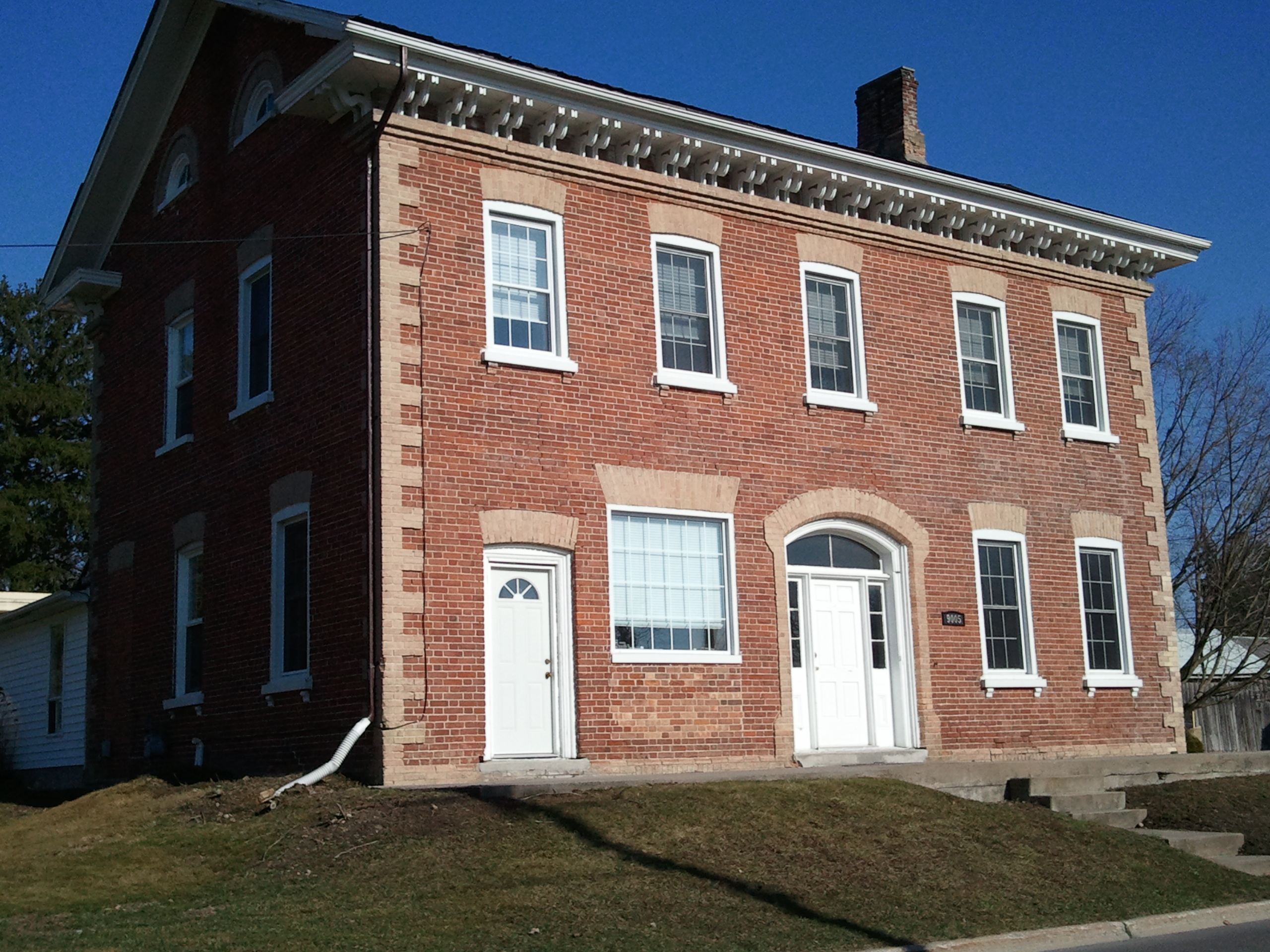 Historical Building: The Wilson House, built 1864, 9005 Ashburn Rd., Ashburn, ON